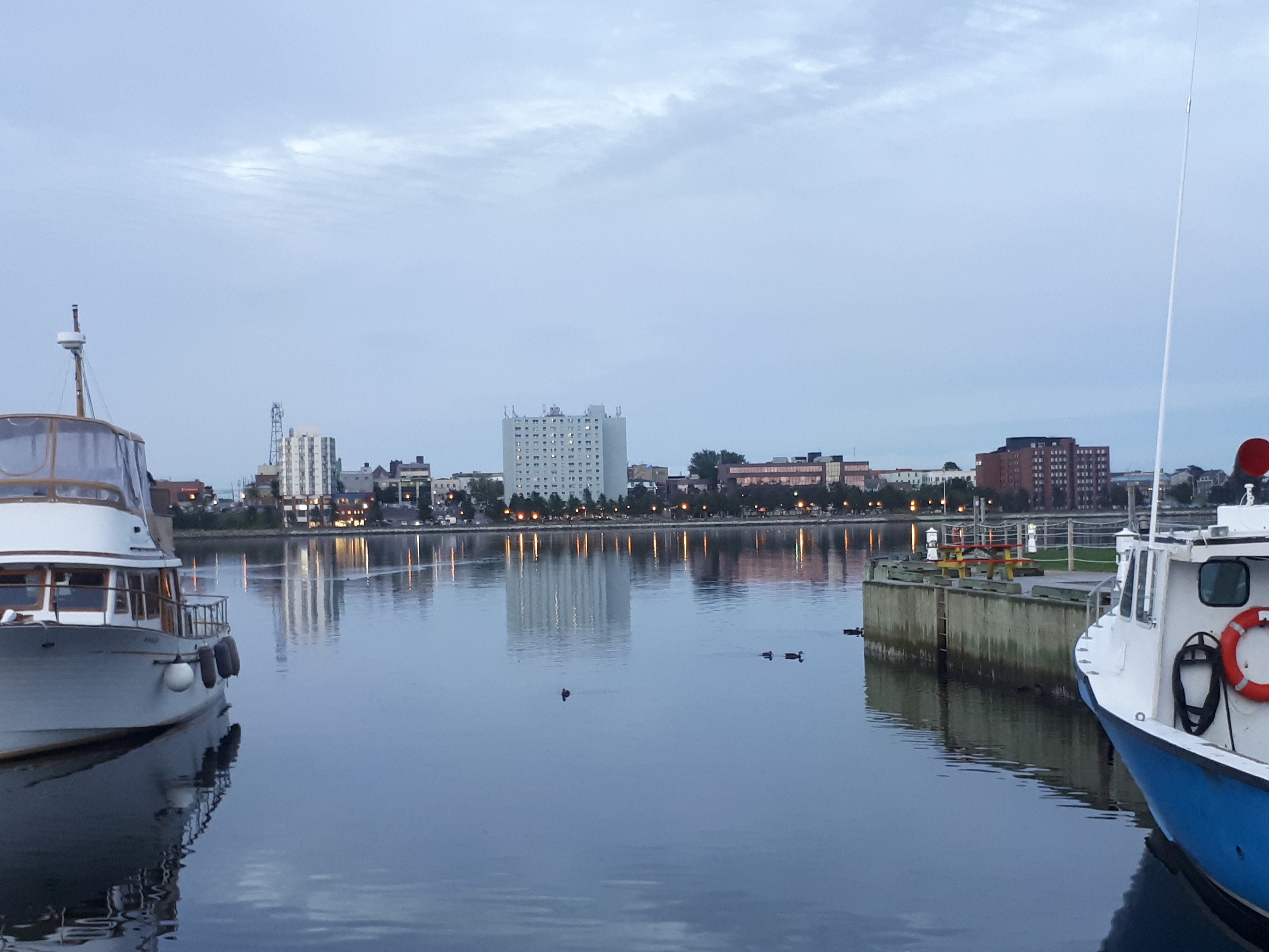 Sydney, Nova Scotia waterfront from Dobson Yacht Club in 2017